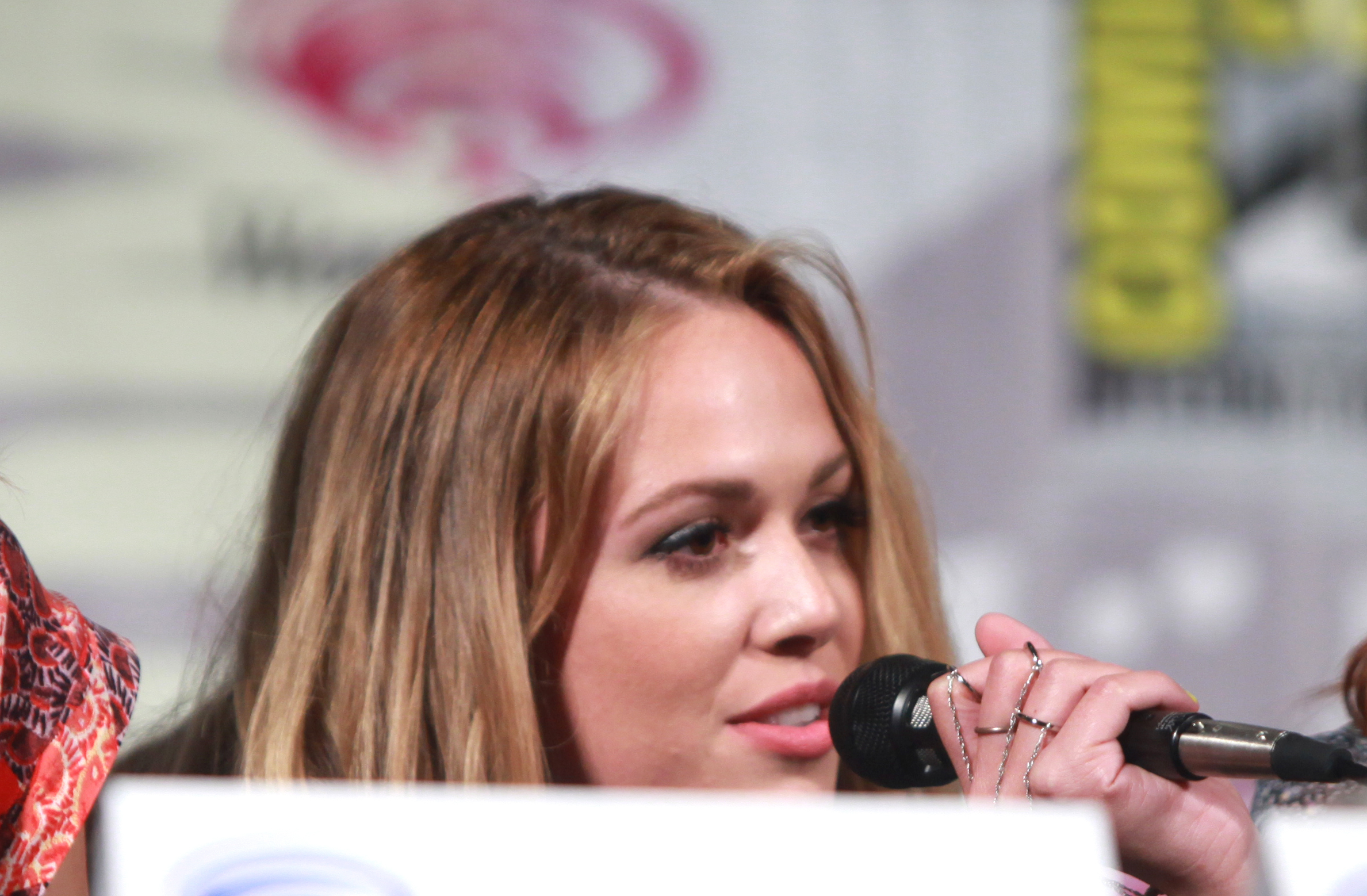 Natalie Hall speaking at the 2014 WonderCon, for Star-Crossed, at the Anaheim Convention Center in Anaheim, California.